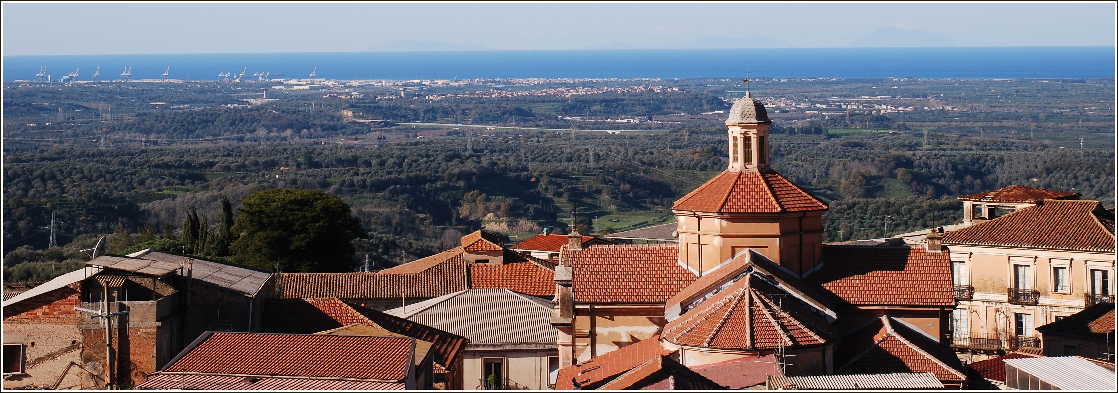 Laureana, Mar Tirreno